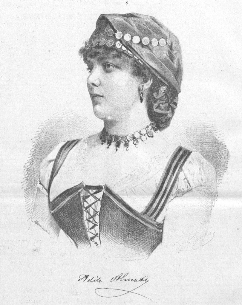 Portrait of Adèle Almati (1861-1919), Swedish opera singer.